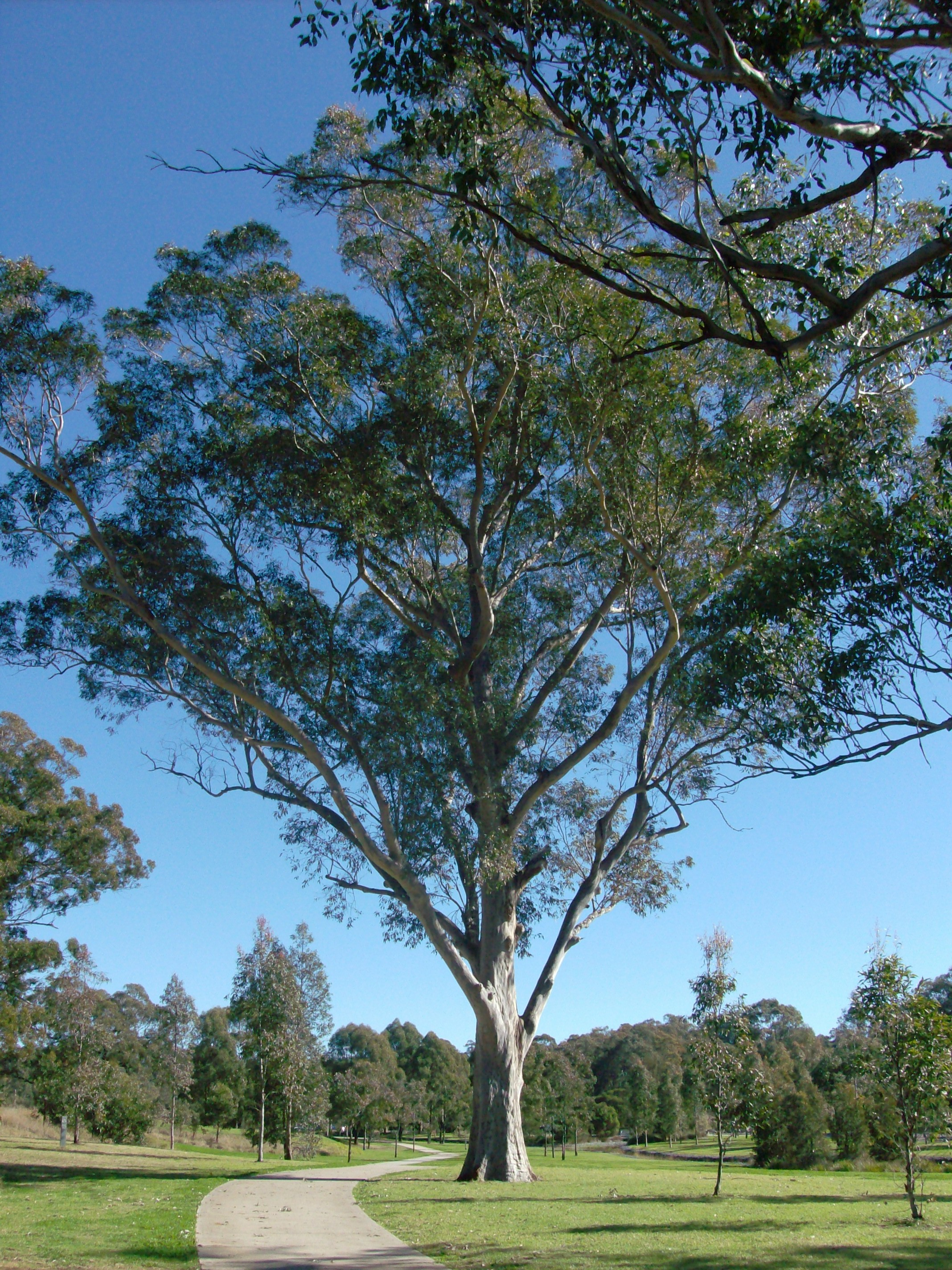 A walkway in the park.